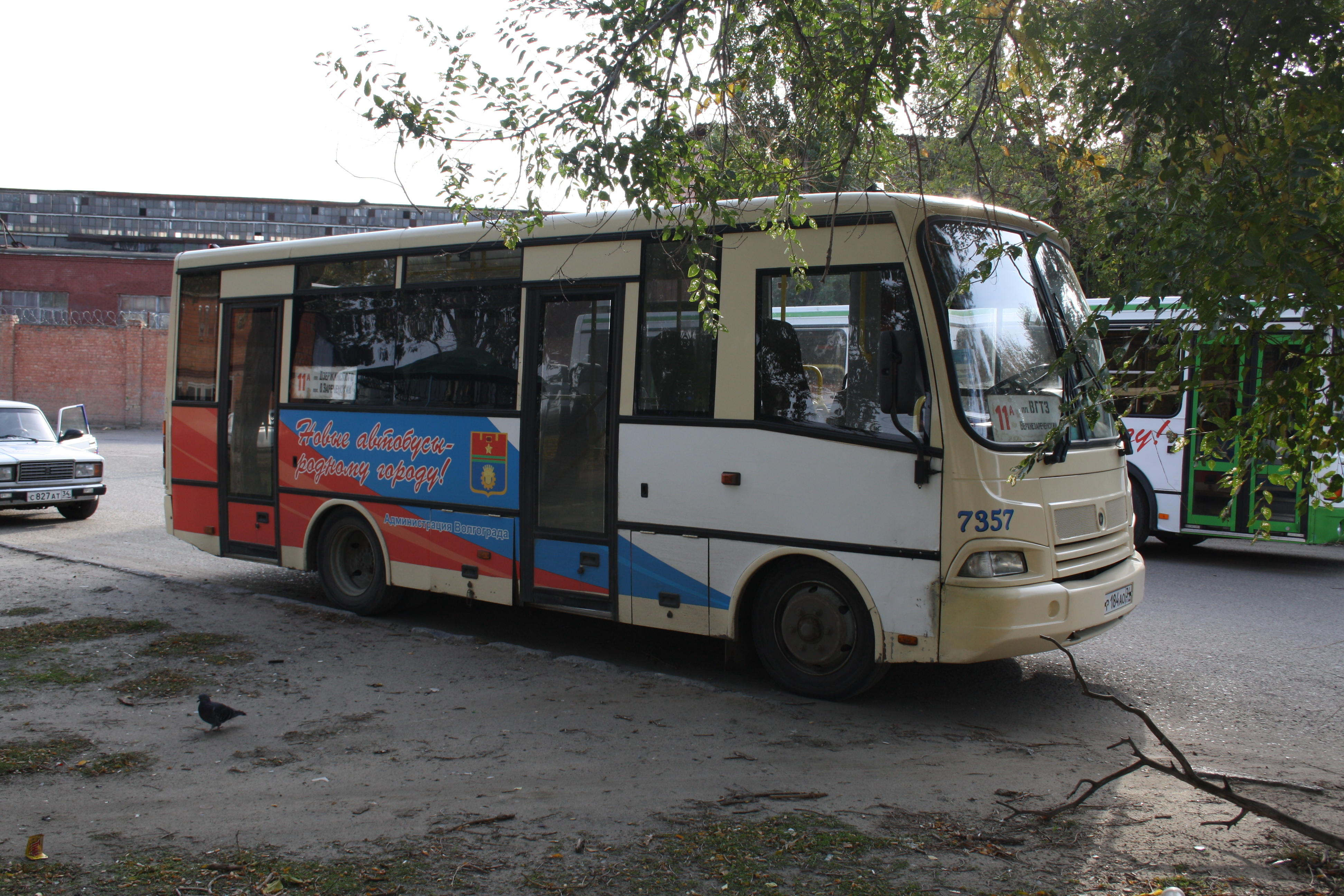 Volgograd bus no. 7357. LiAZ-5256.